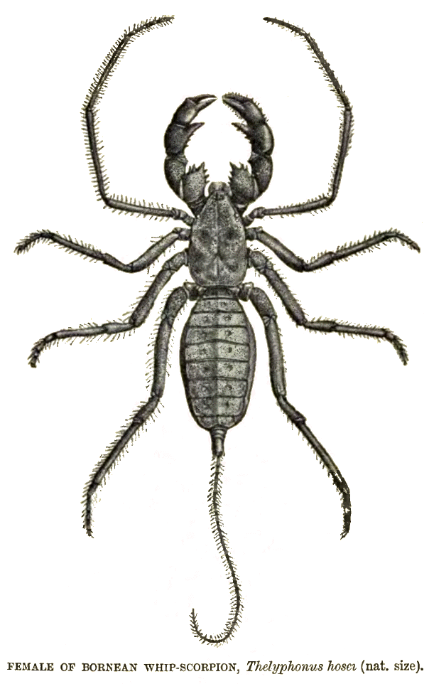 Whip scorpion, Thelyphonus doriae hosei (Pocock, 1894)